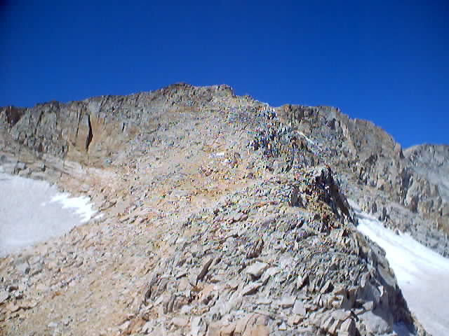 A photo taken high on the East Ridge of Mount Conness in the Sierra Nevada